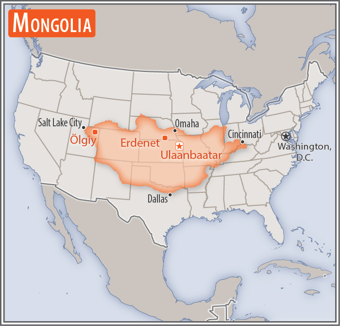 Comparison of the areas of two country. The area of Mongolia with biggest cities (red) overlay the area of the United States of America (gray background).